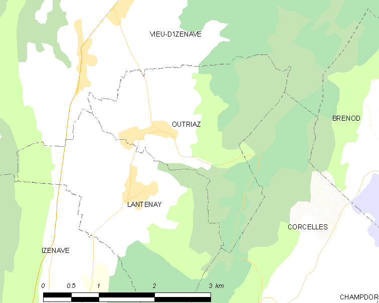 Map of French commune: Outriaz Map commune FR insee code 01282.png